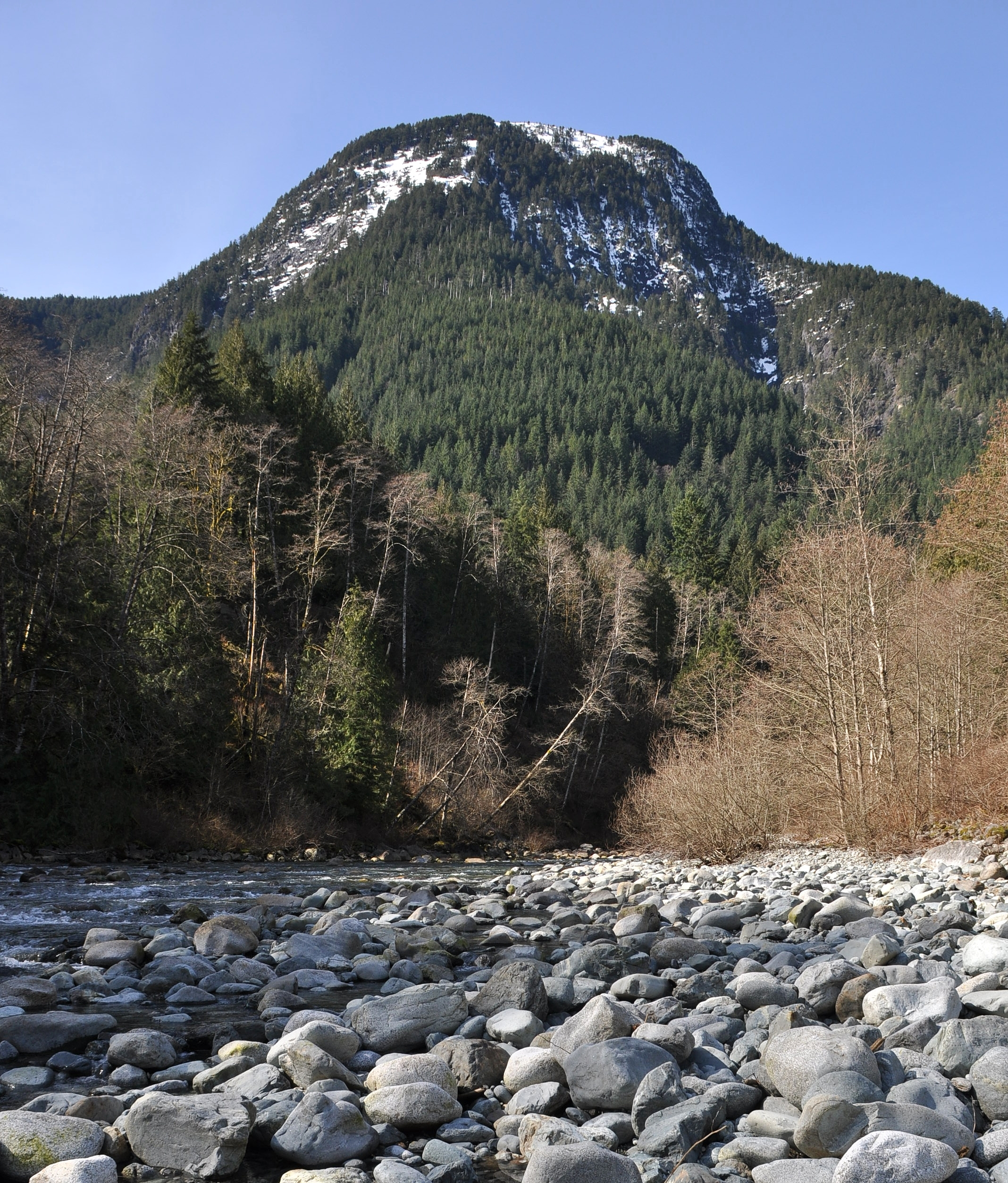 Evans Peak, Golden Ears Provincial Park, British Columbia.